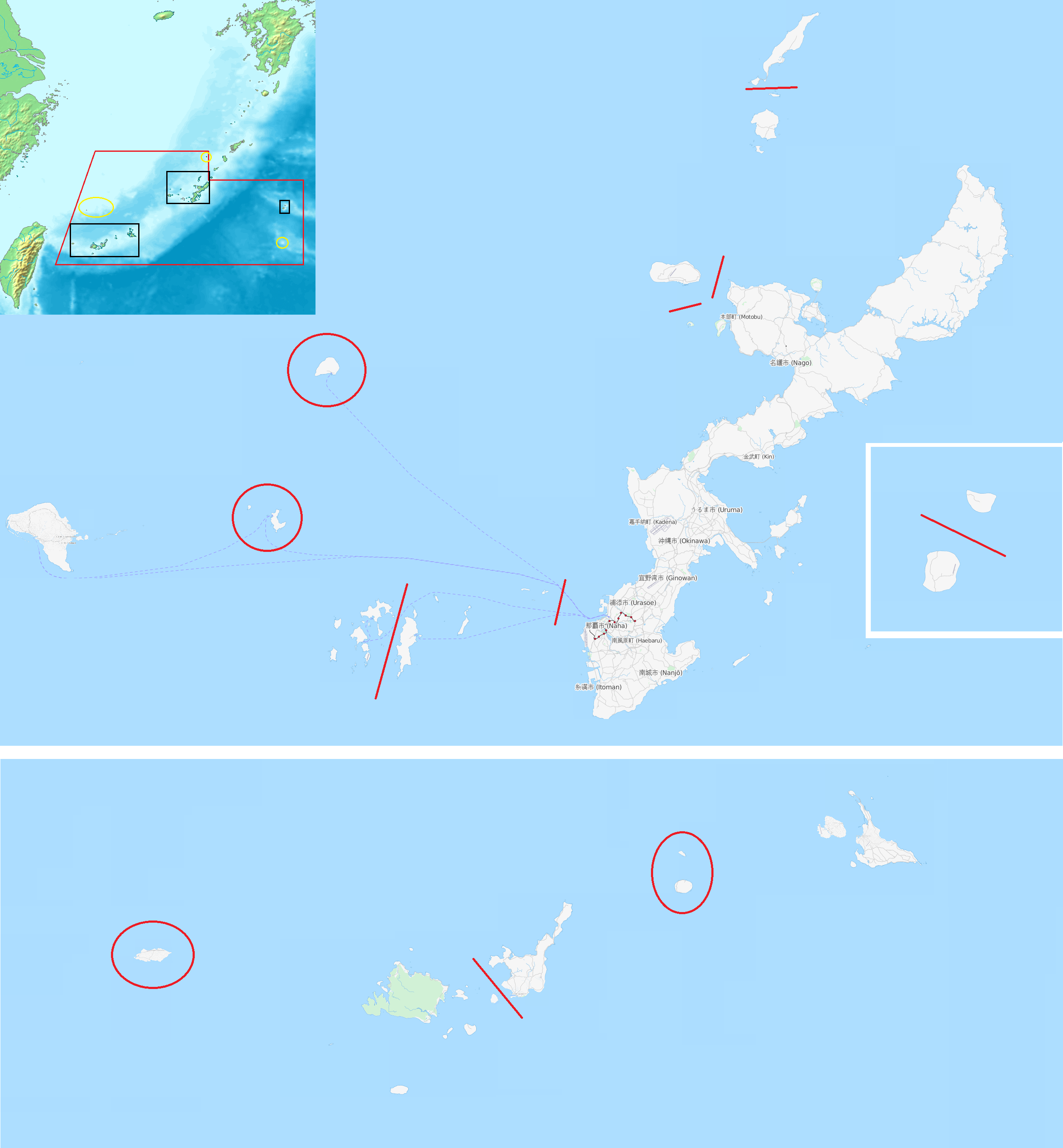 Map of Okinawa prefecture